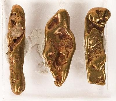 Gold Locality: Mother Lode (Mother Lode belt), Tuolumne County, California, USA (Locality at ) Size: 2.7 x 0.6 x 0.5 cm (largest). A fine 3-piece set from the Mother Lode District of California. Three large, sculptural, flattened to rounded, river-worn gold nuggets with rich gold lustre and color comprise this lot. The taller, rounded nugget looks like a rolling pin. The middle, leaf-like nugget is gorgeous on both sides. These are old-time nuggets. Weighs 13 grams.